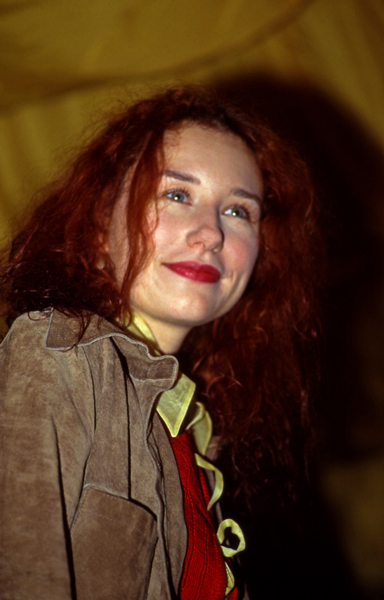 Tori Amos, 16th February 1993, appearing on the Brit Award red carpet photo call in Alexandra Palace, London, UK.